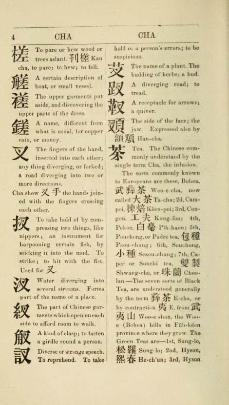 A page from "a dictionary of the Chinese language .." by Robert Morrison, , 1782-1834. The dictionary was originally published in several volumes ca. 1820, reprinted in 1865. This page (Vol 1 of the Second Part; p. 4 in 1865 edition) includes part of the aricle for cha ("tea")